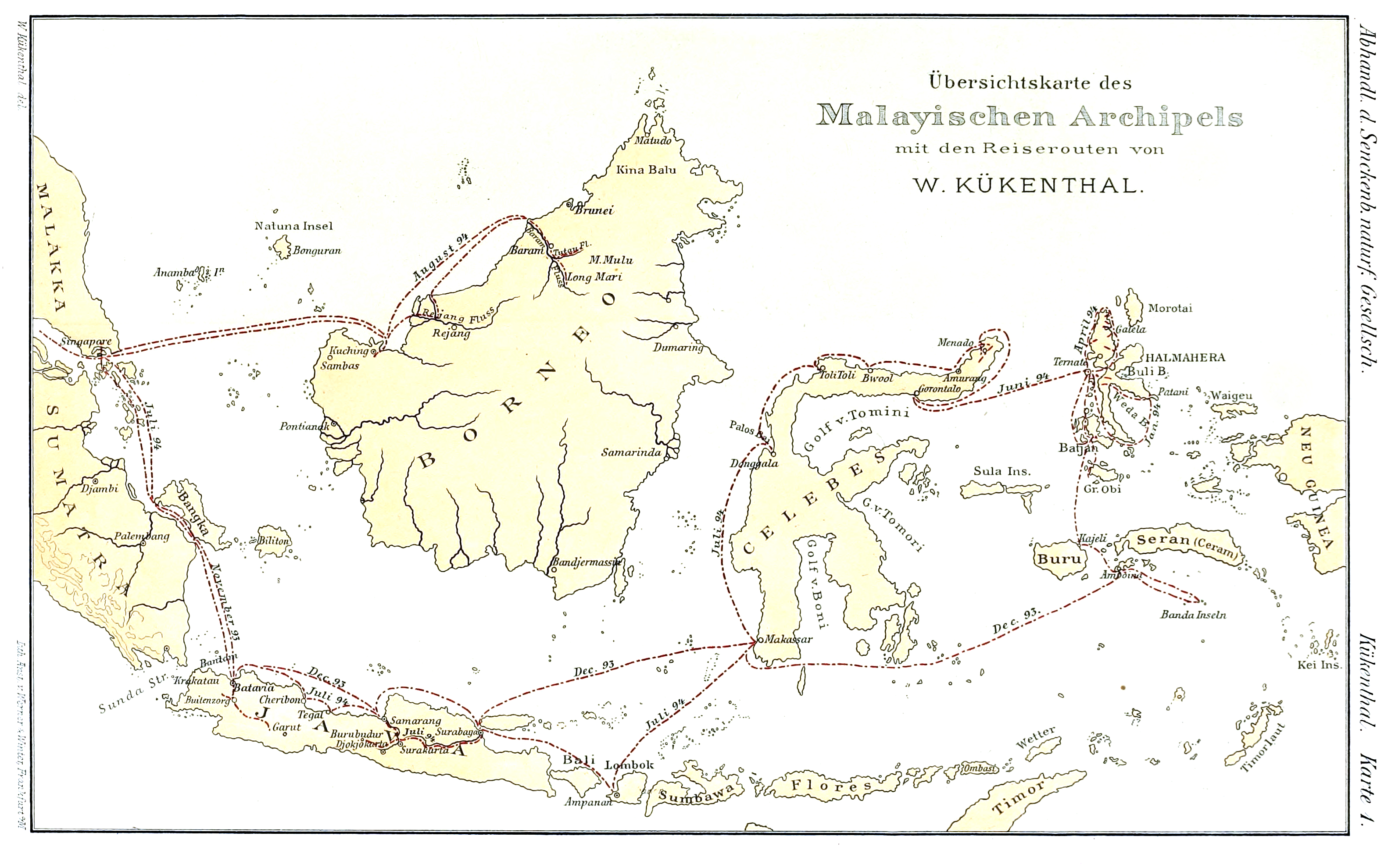 Route taken by Kukenthal in Malaya